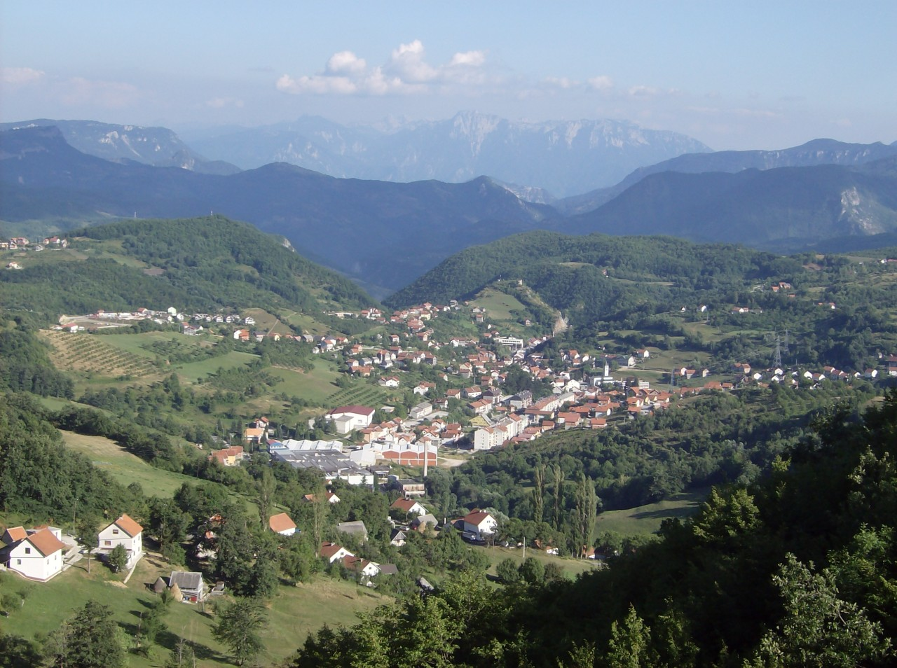 Panorama photos of Prozor-Rama, Bosnia and Hercegovina